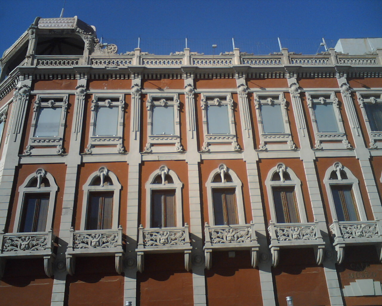 Edificio Arocena. Construido en 1920 y considerado Patrimonio arquitectónico de Torreón.